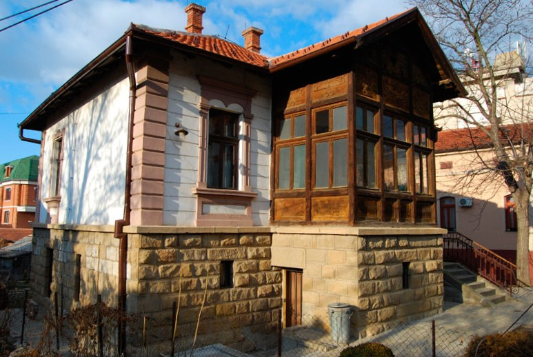 House of Aca Stanojević in Knjaževac